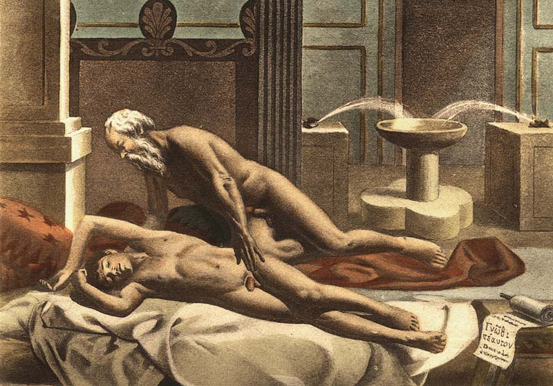 Socrates and Alcibiades.From the essay "De Figuris Veneris" by Friedrich Karl Forberg (1770–1848). The placard in the lower right hand corner reads "Gnothi seauton", Socrates' admonition to his friends to "know yourself".